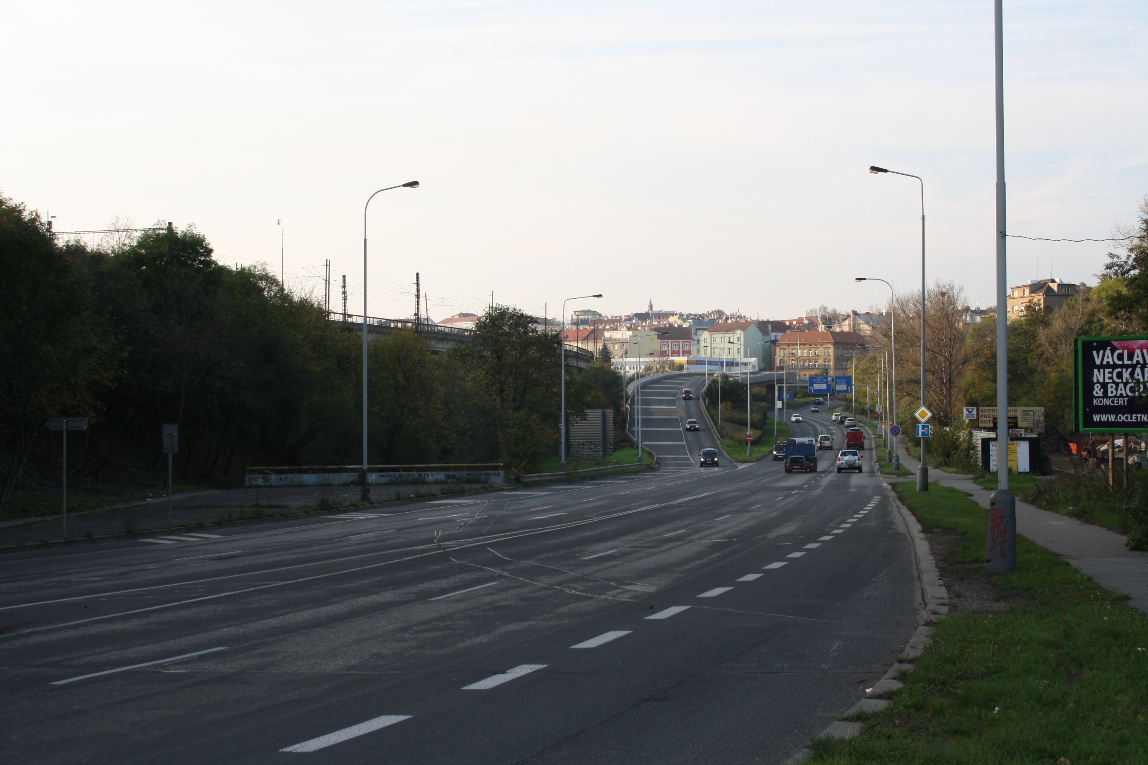 Čuprova (Praha-Libeň, Czech republic